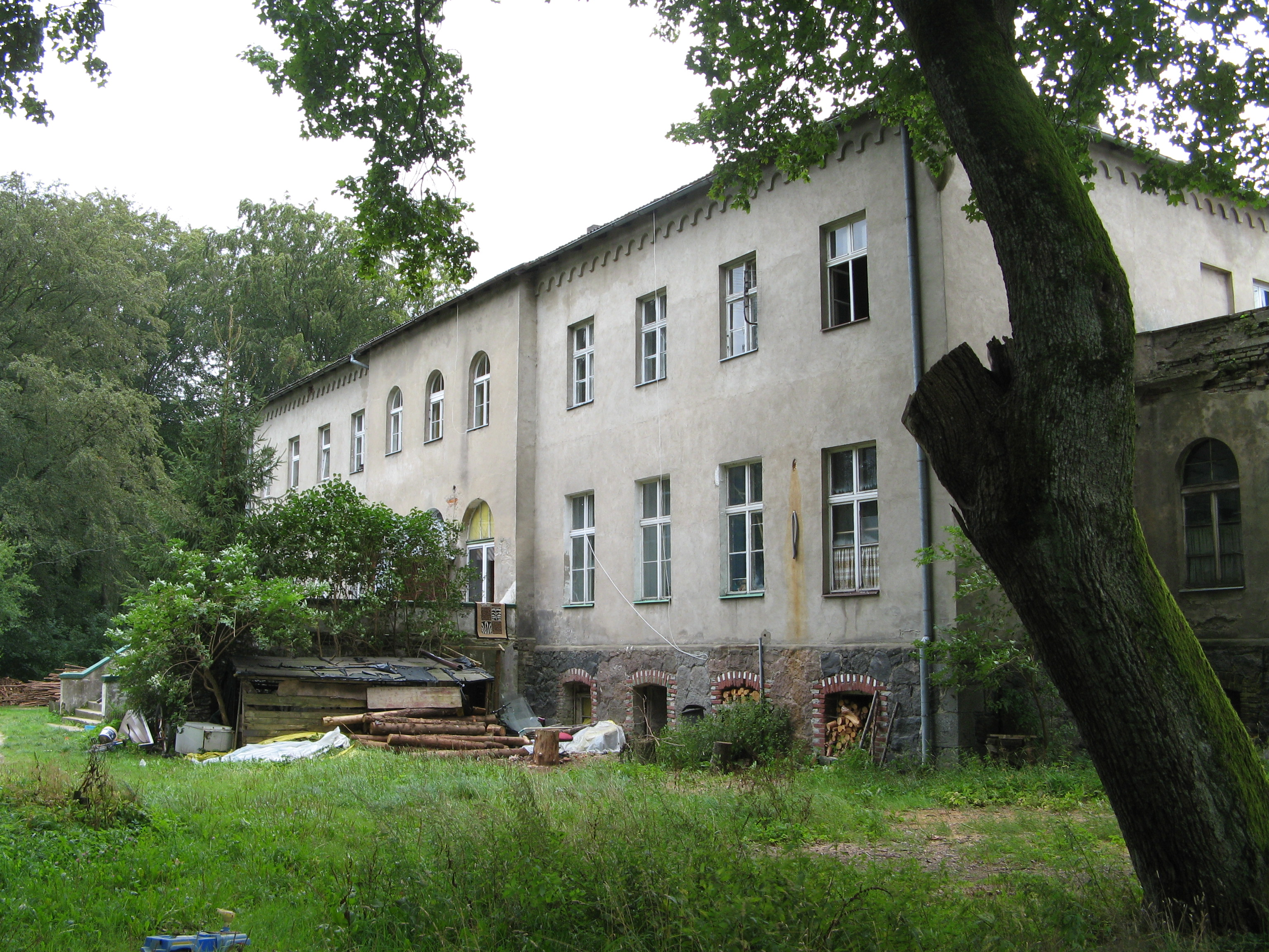 Former castle in Jerzkowice (before 1945 german Jerskewitz)